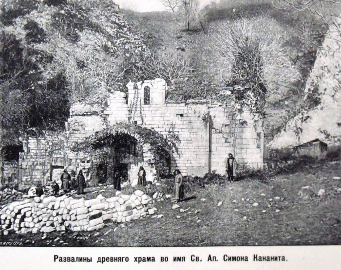 Christian monuments of Abkhazia. Illustration from the book authored by Archimandrite Leonid, 1899.